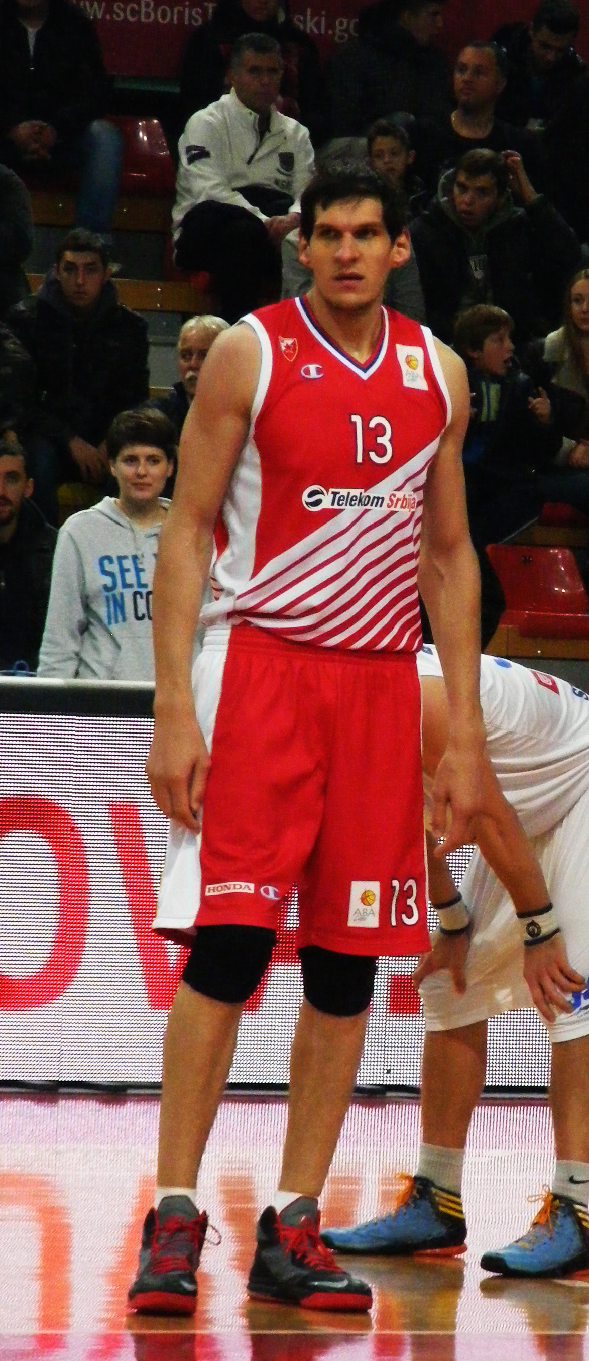 Bobi Marjanovic